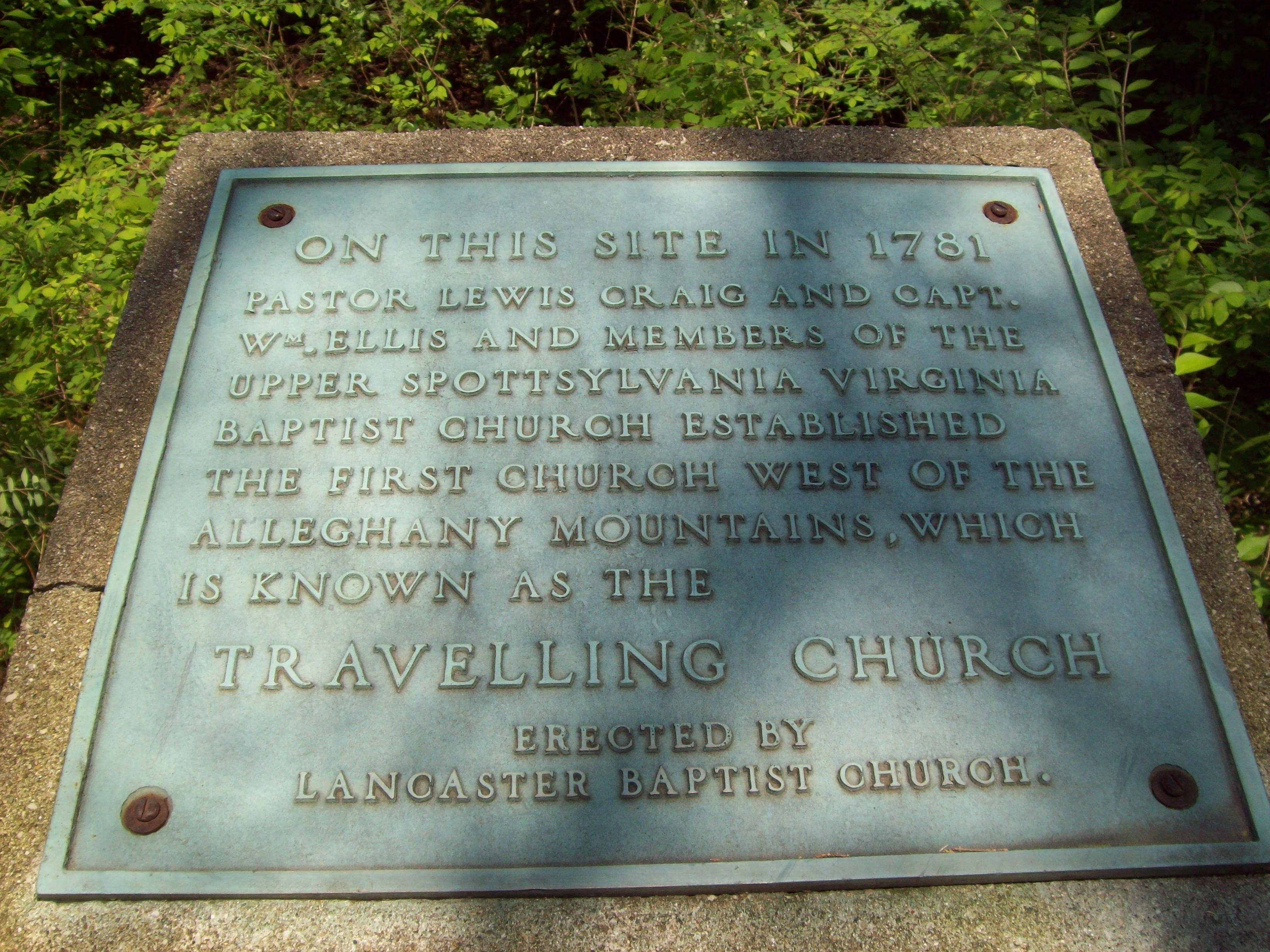 Memorial tablet on a monument atop the hill at Gilbert's Creek, Kentucky, where the famous "Travelling Church" built their first fortified hill church in the wilderness of pioneer Kentucky in 1782.